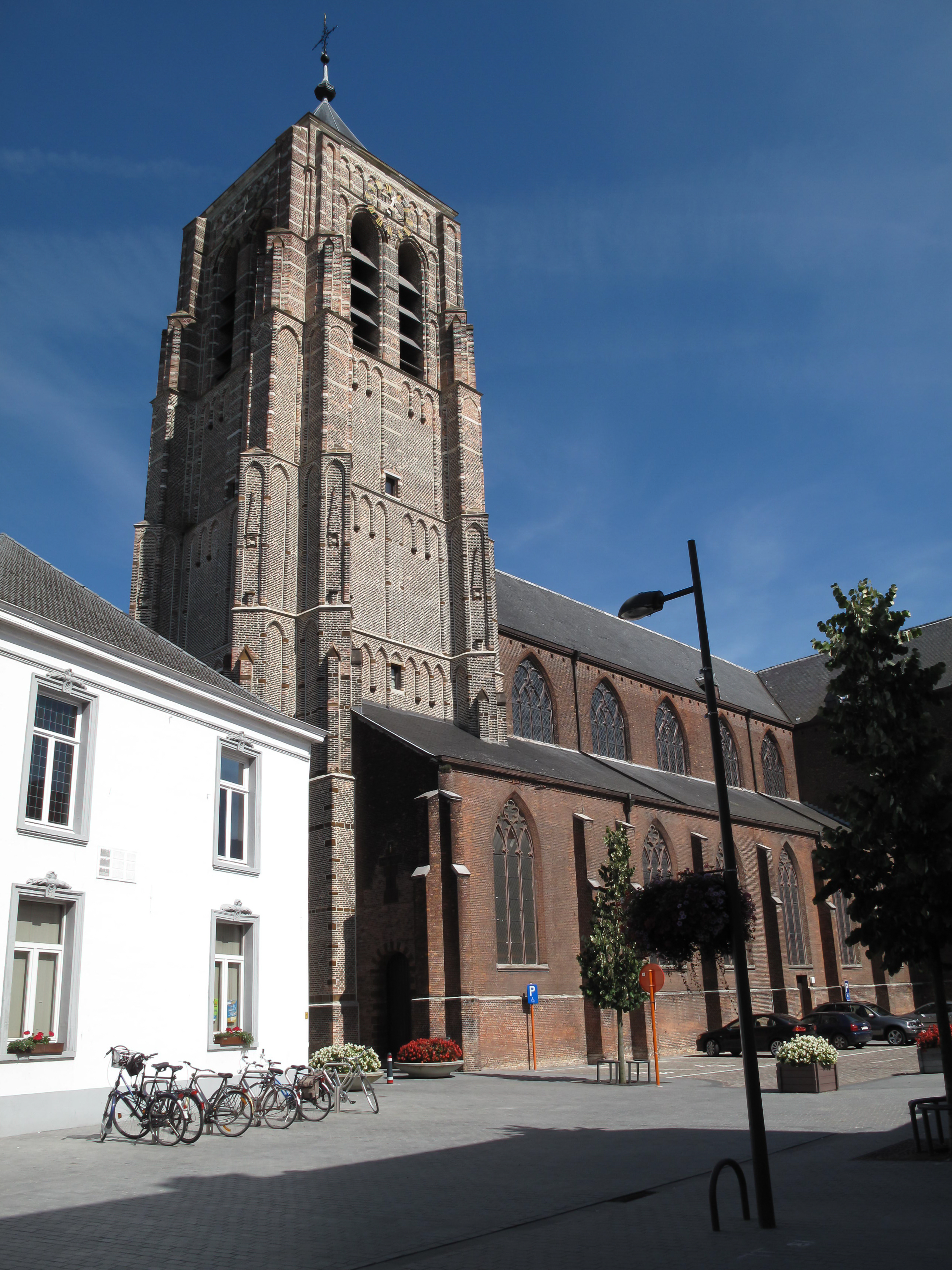 Mol, church